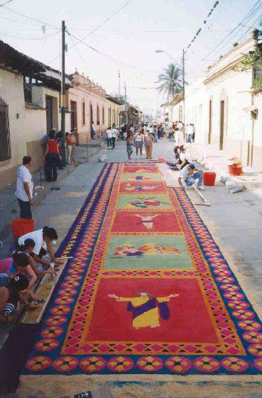 Saw dust carpet, a tradition during Holy Week in Comayagua, Honduras